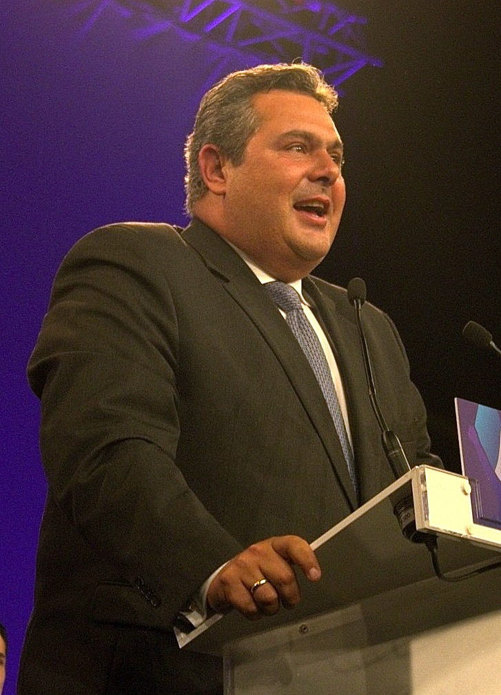 Panos Kammenos, Greek politician